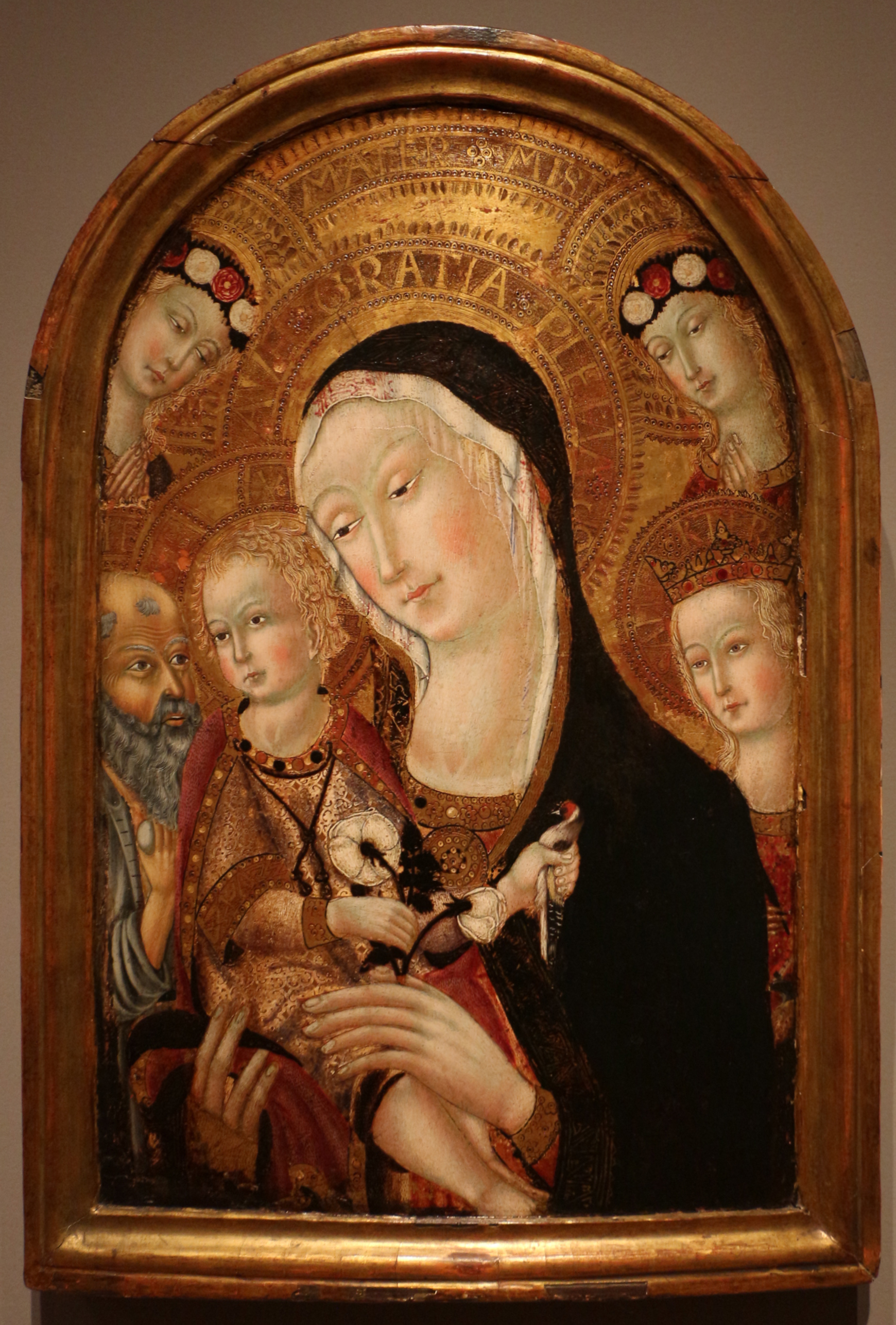 Italian paintings in the Cleveland Museum of Art